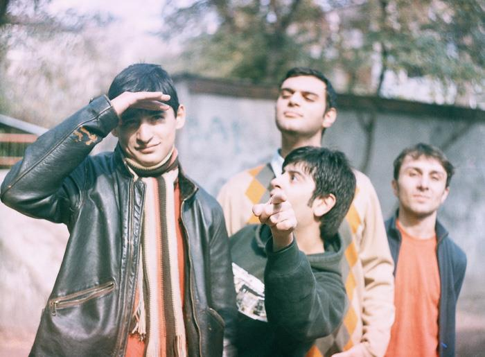 Official press photo of Crimesterdam